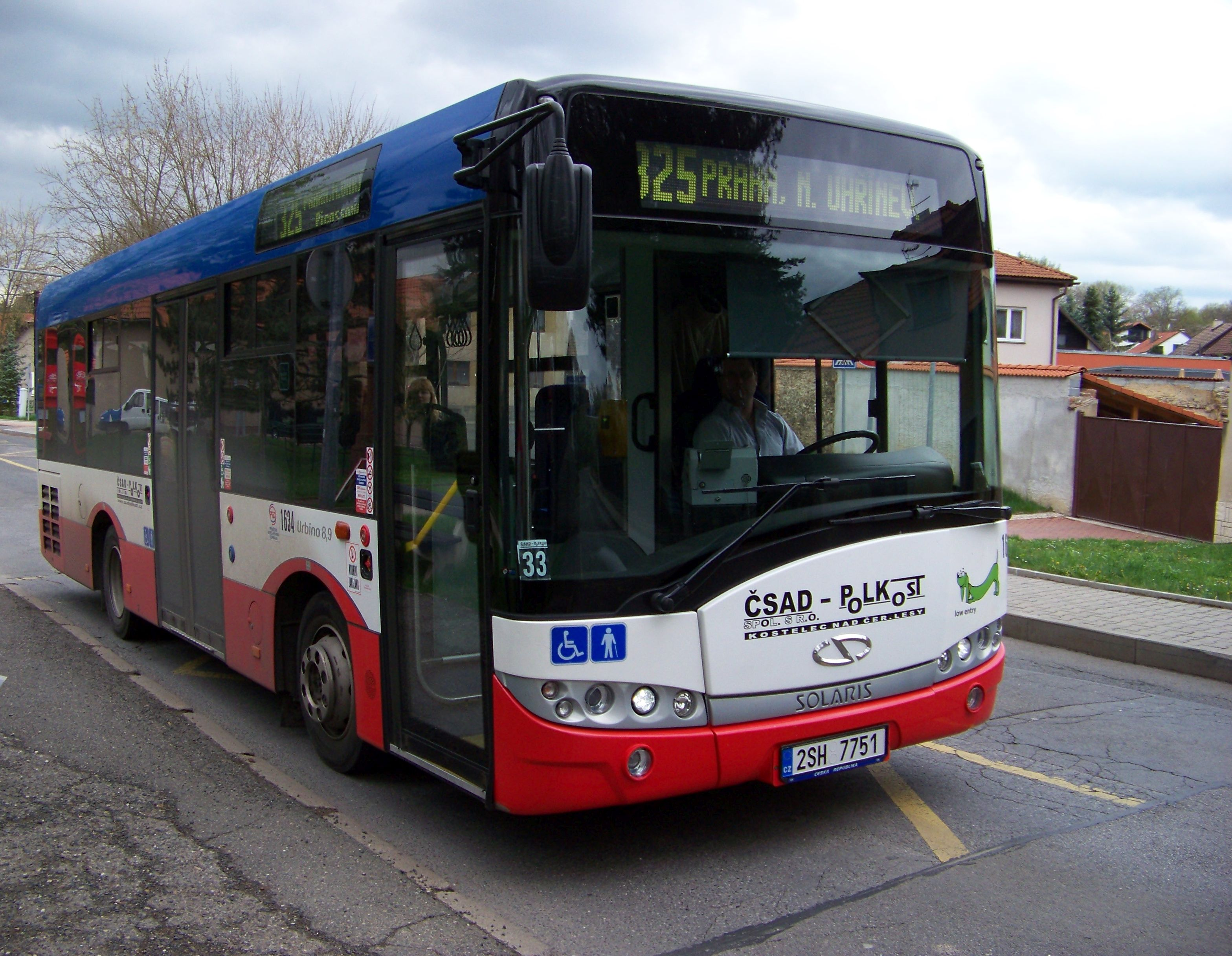 Prague-Benice, Czech Republic. A bus Solaris Urbino 8,9 LE of ČSAD Polkost.